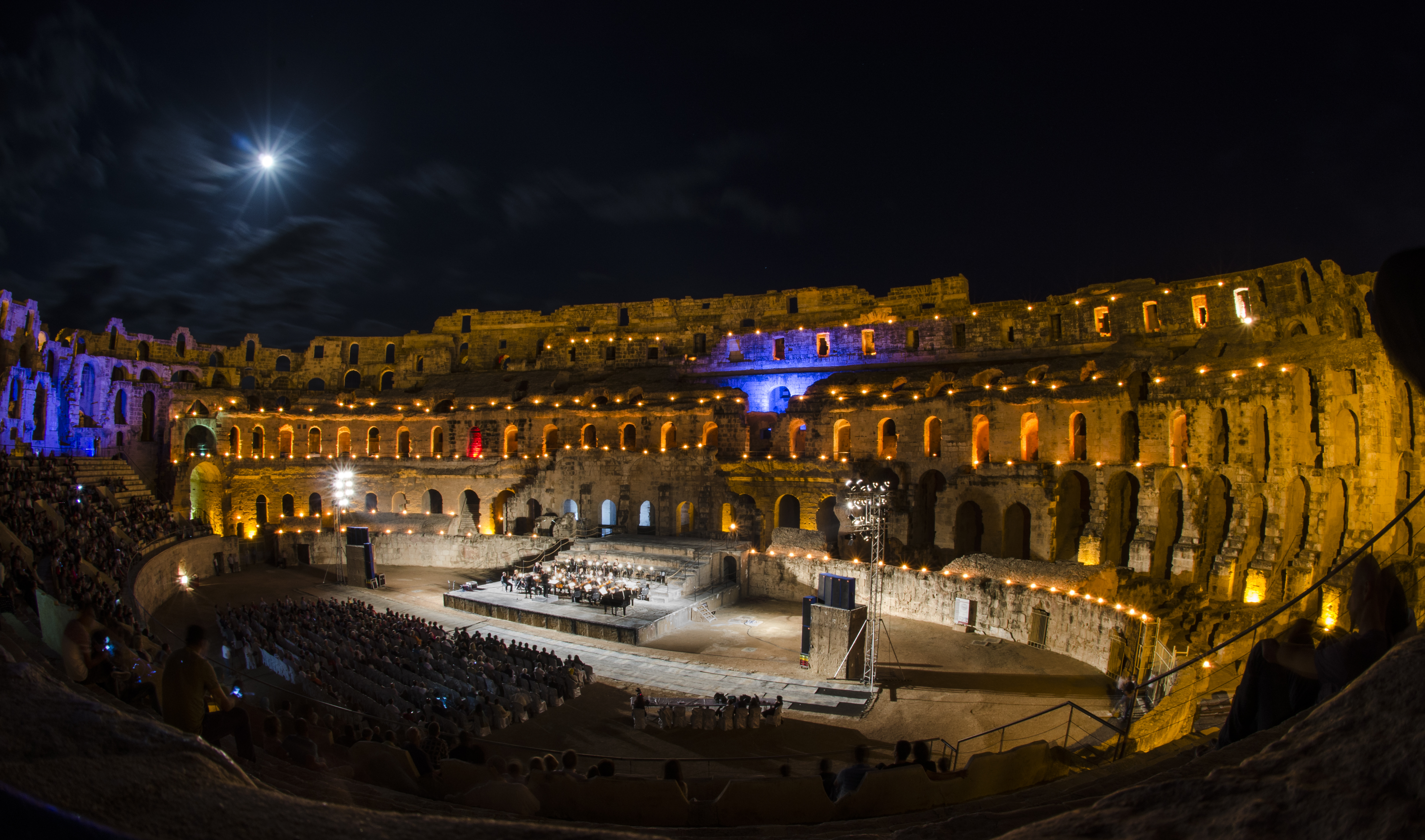 El Djem Amphitheatre, Tunisia